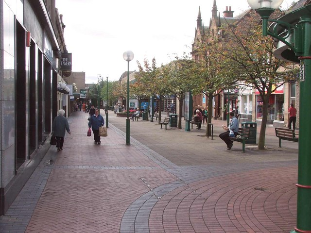 La Porte Precinct Pedestrian shopping area with a fair variety of small shops and a Supermarket.